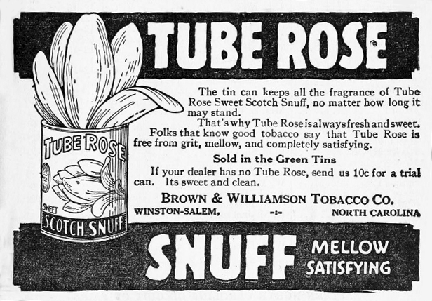 "Tube Rose Snuff, Brown & Williamson Tobacco Company, Winston-Salem, North Carolina," illustration published by the North Carolina State Fair Premium List 1920. Image courtesy of the Government and Heritage Library, State Library of North Carolina.